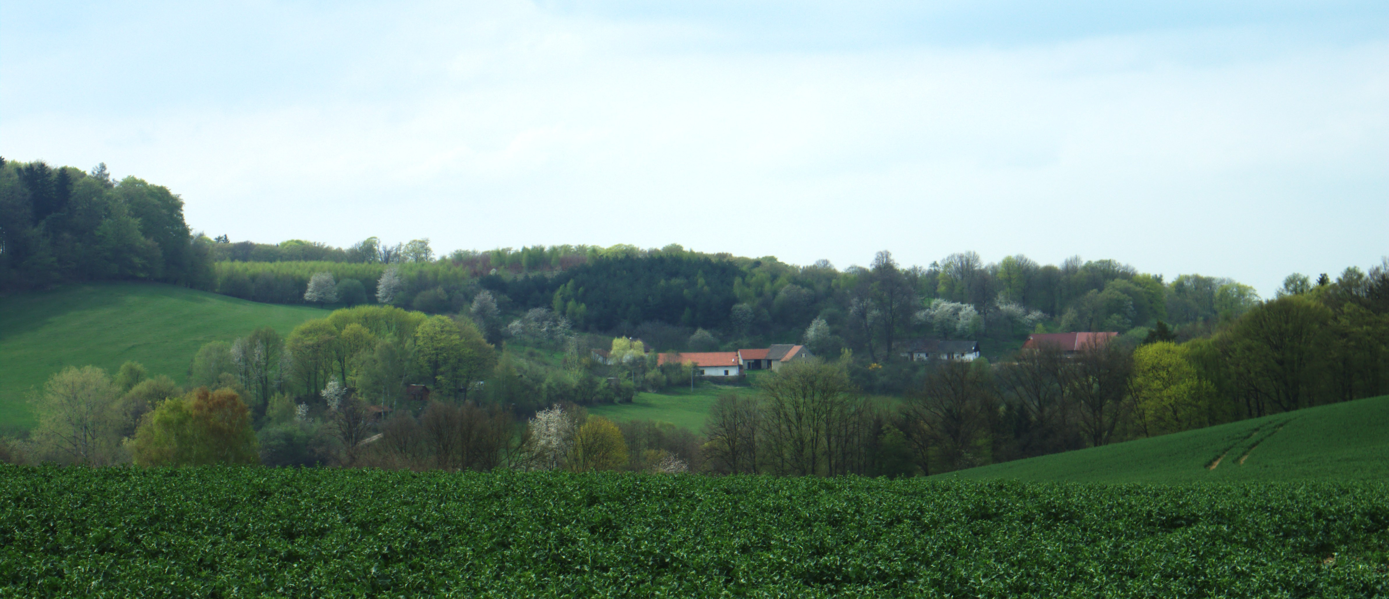 Countryside north from the village of Pozov (Jezviny settlement can be seen on this picture) in Benešov District, CZ